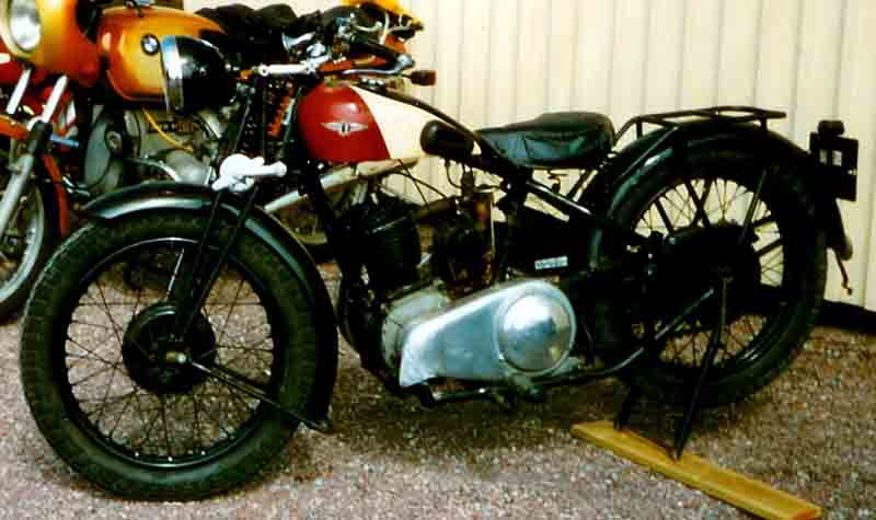 Coventry-Eagle